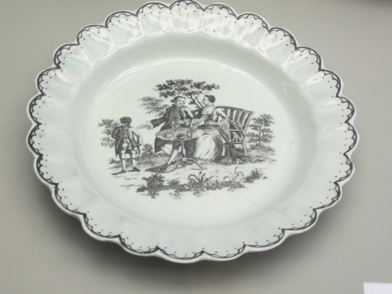 18th century porcelain made by James Pennington of Liverpool. On display at the Williamson Art Gallery and Museum, Birkenhead, Merseyside, England.